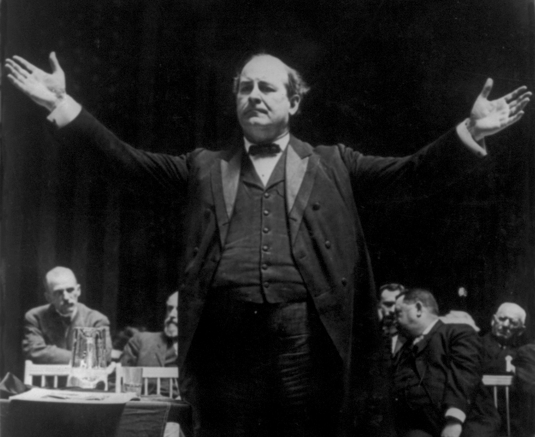 William Jennings Bryan, full-length view with arms spread, standing next to flag drapped table on stage; men seated in the background, during 1908 Democratic National Convention